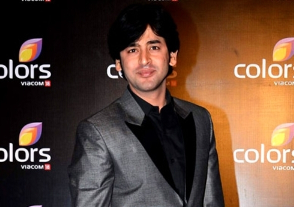 Shashank Vyas at Colors TV party